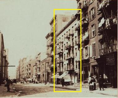 The image depicts the two early tenements on the lot that were replaced in 1926 by the Downtown Community House. Source: New York Public Library Digital Gallery, Digital ID: 724079f. Modified by Kate Reggev, released on Wikipedia to Public Domain by owners of report (Save Washington Street campaign)